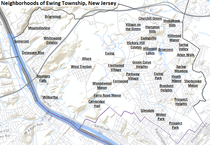 Map of neighborhoods in Ewing Township, New Jersey. Background map from US Census Bureau, altered with the addition of neighborhood names.